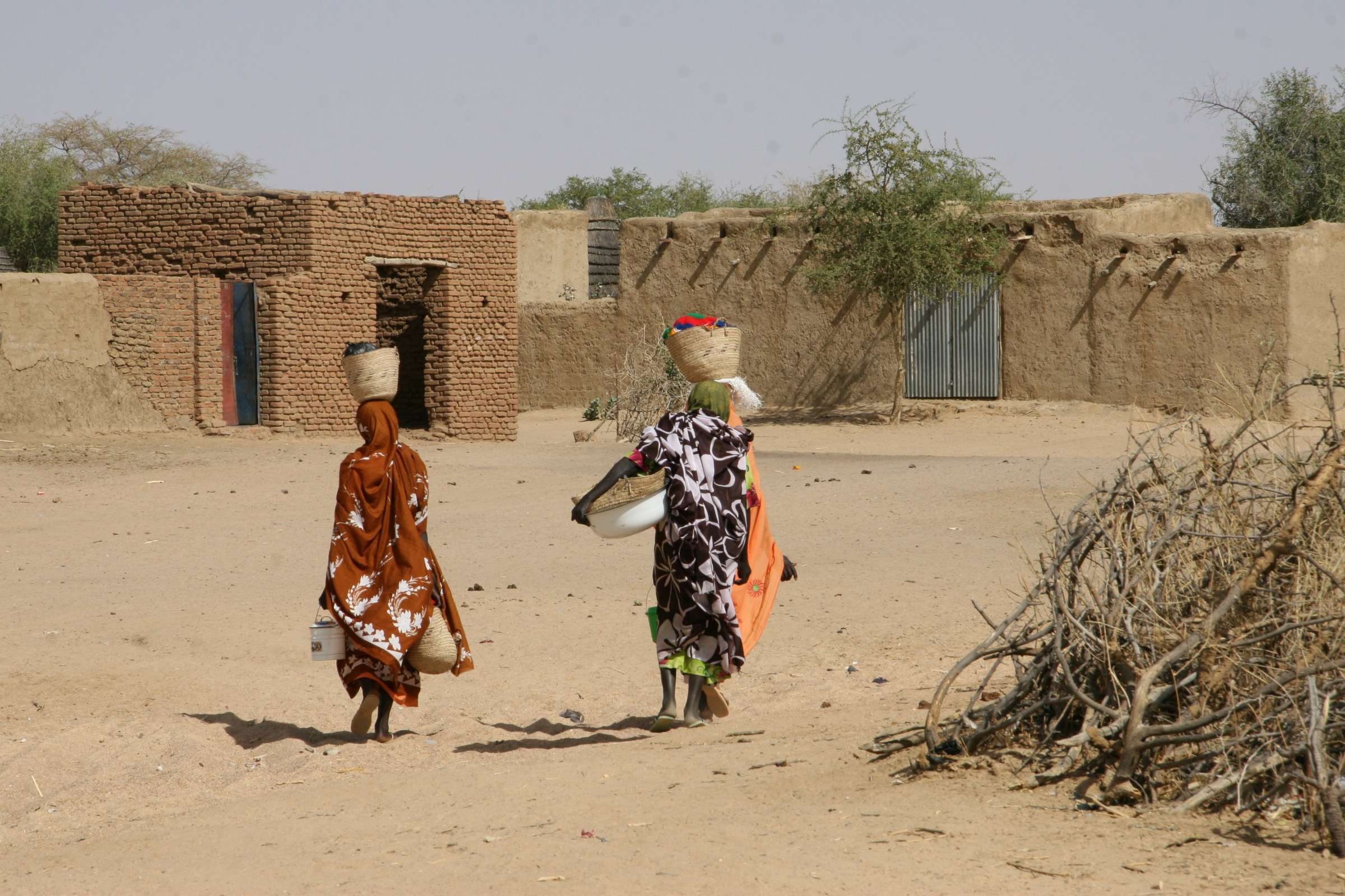 Darfur. Women in daily life